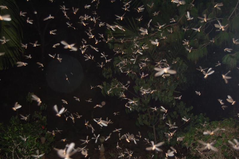 Flying Termites after rain in 2007